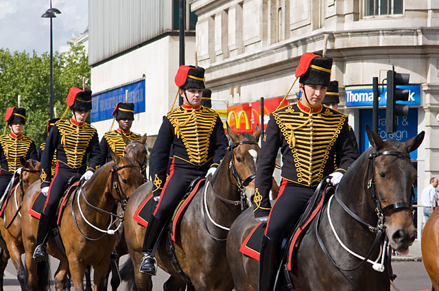 The King's Troop Royal Horse Artillery Members of the troop at Marble Arch, returning to barracks after performing ceremonial functions for a visiting dignitary.